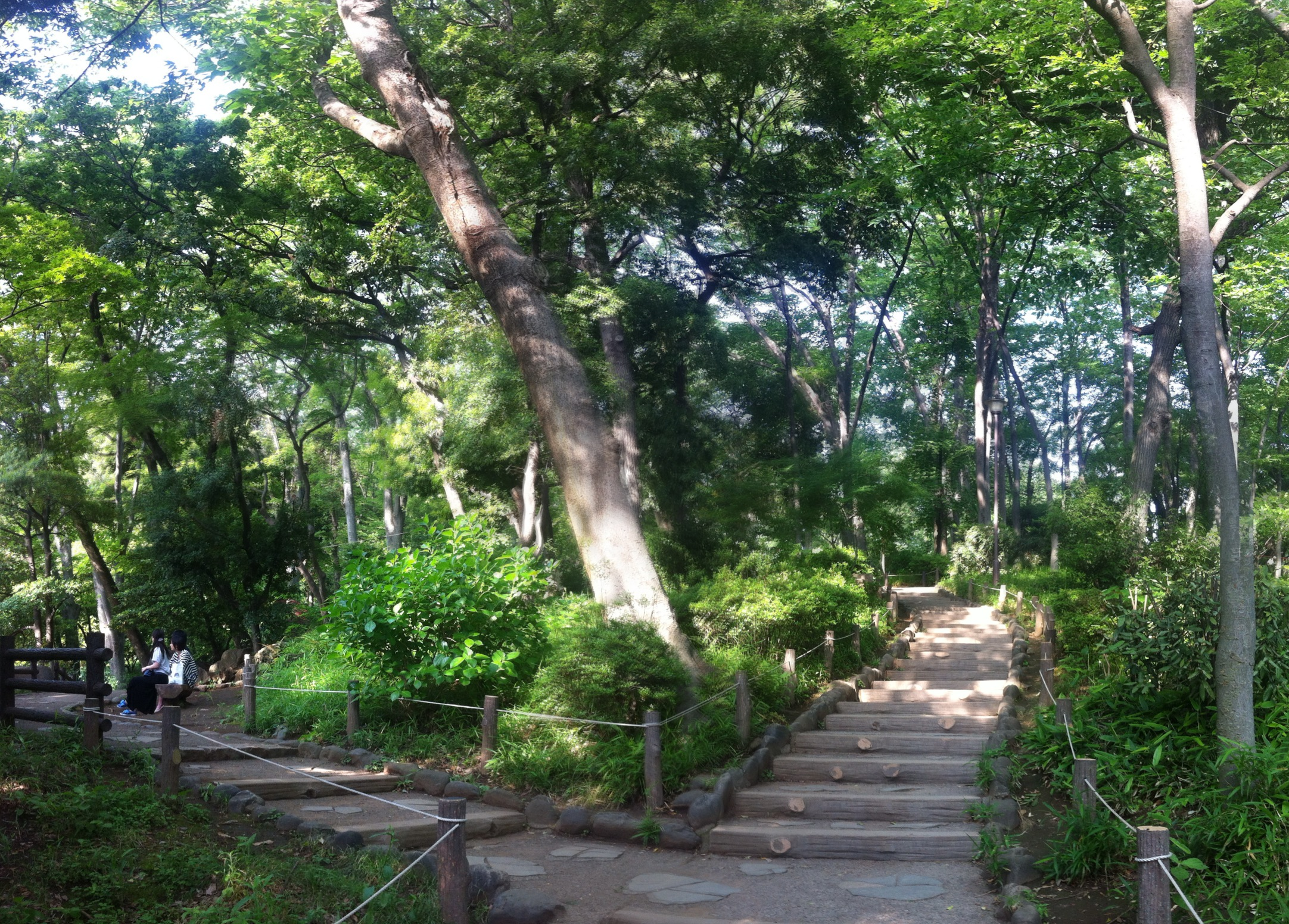 有栖川公園の後ろ Back of Arisugawa park